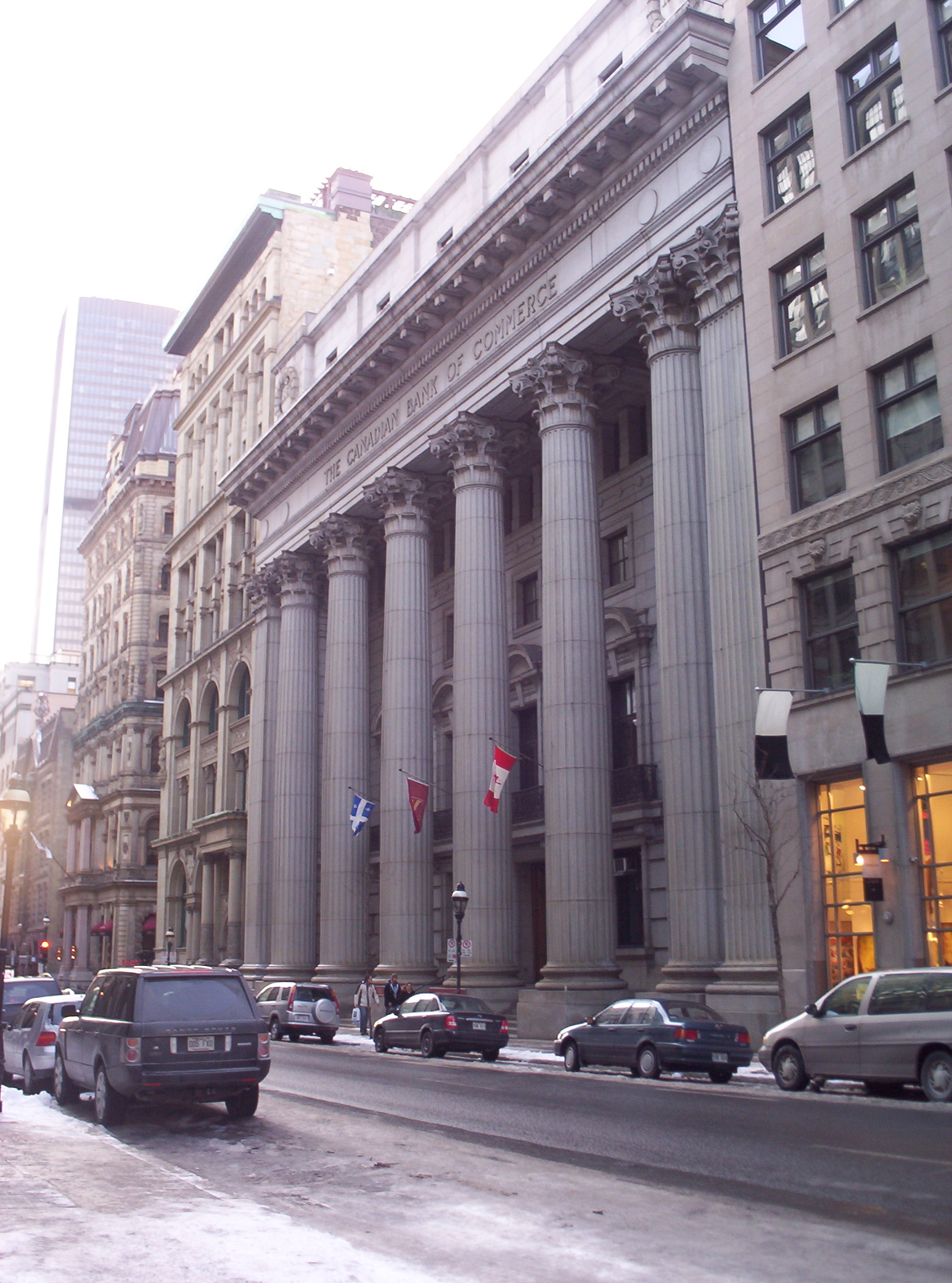 Summary: View of the Canadian Bank of Commerce (CIBC) building in Montreal, Québec Author: Colocho Date: January 22nd, 2006